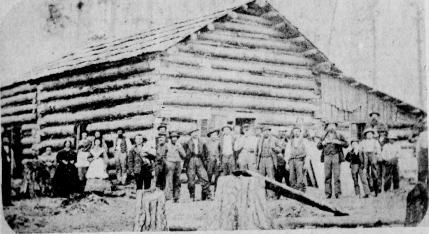 Clam Lake House Hotel 1871. First business in Cadillac, Michigan